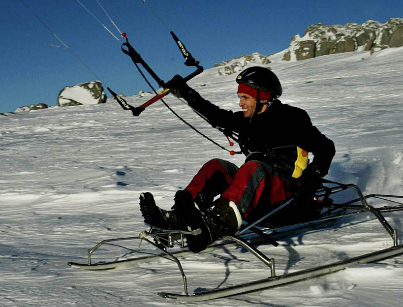 Eric Brackenbury 2005